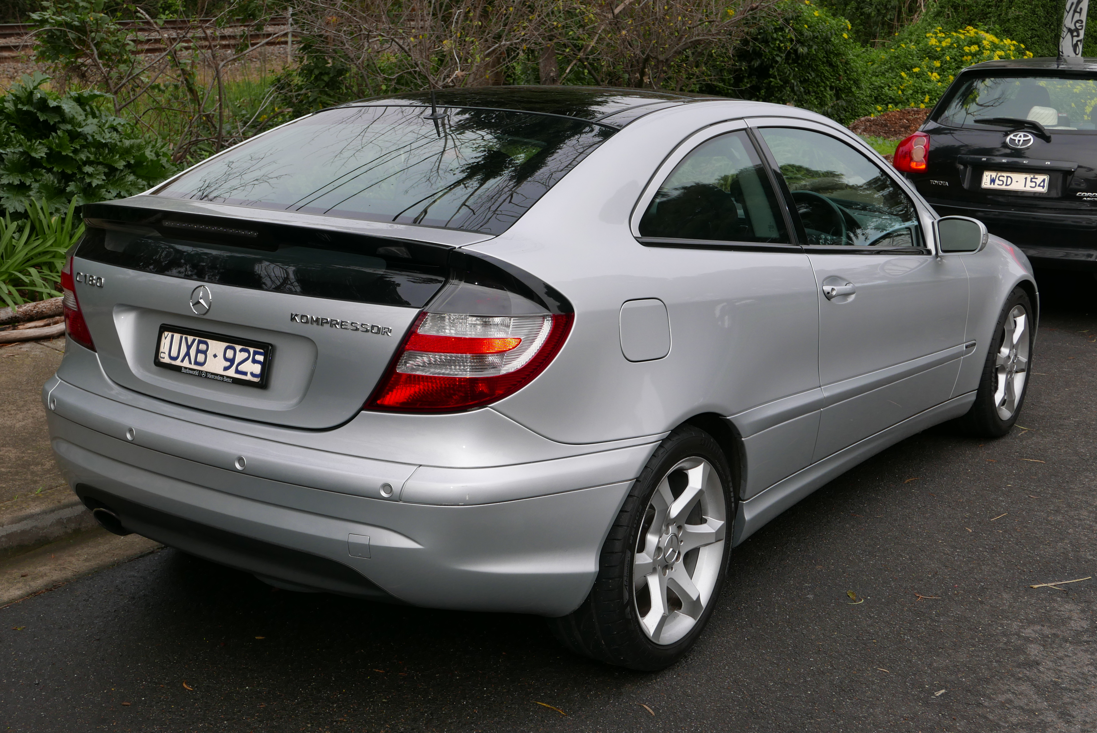 2007 Mercedes-Benz C 180 Kompressor (CL 203 MY07) Super Sport hatchback. Information about the Super Sport from [1]. Photographed in Ivanhoe, Victoria, Australia. Vehicle registration enquiry results Jurisdiction Victoria Registration UXB925 Chassis code WDB2037462A968017 Engine code 27194630905113 Compliance date 2007-08 Year of manufacture 2007